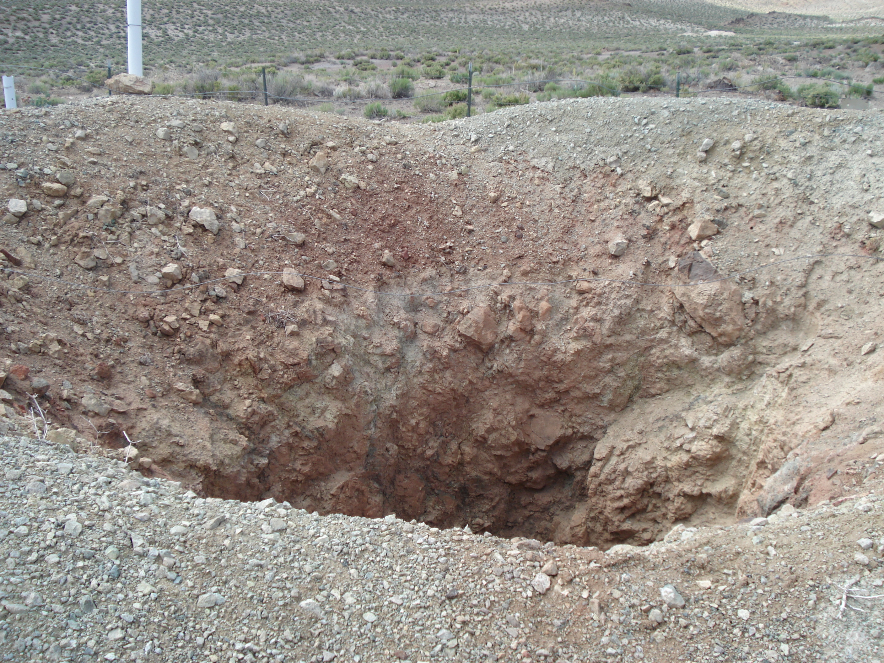 An abandoned mine near Yerington, Nevada, United States